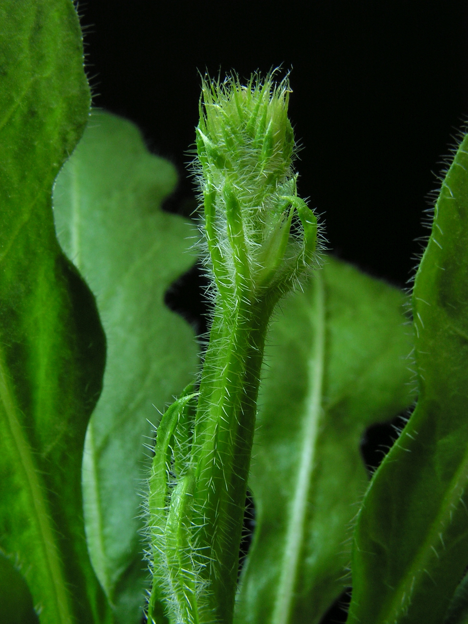 Young peduncle of Wavyleaf Sea-lavender.